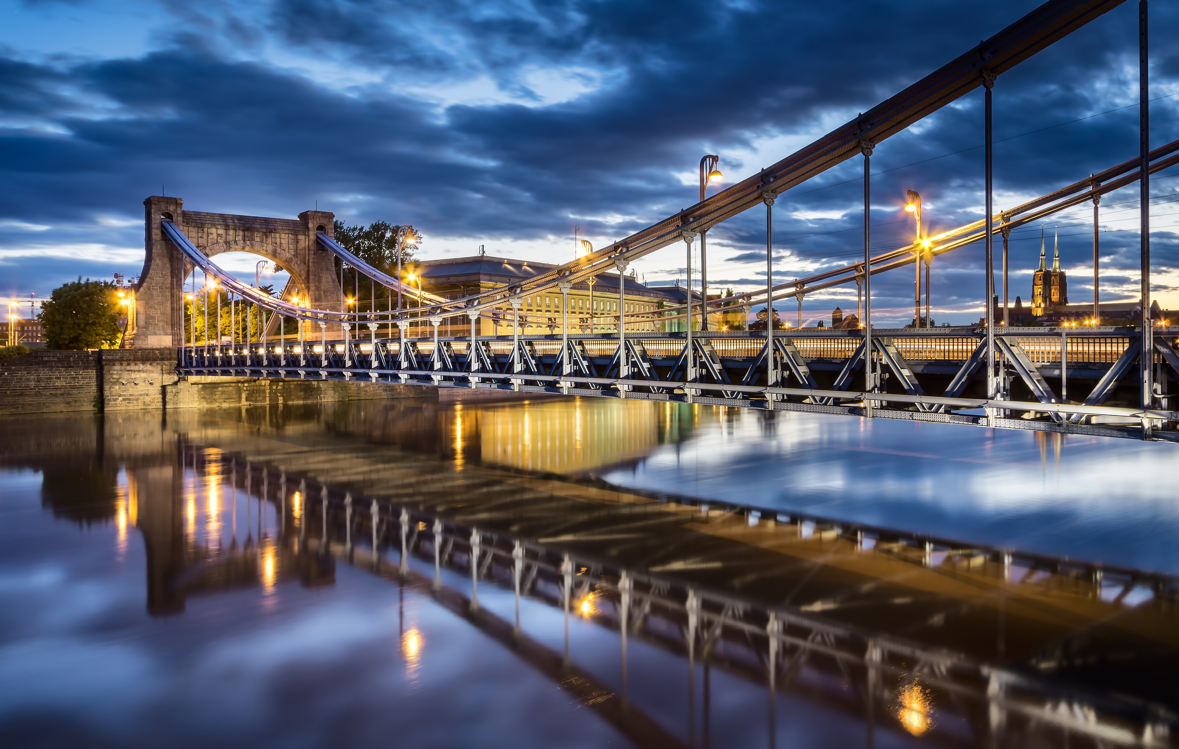 Grunwaldzki Bridge, Wrocław, built 1907